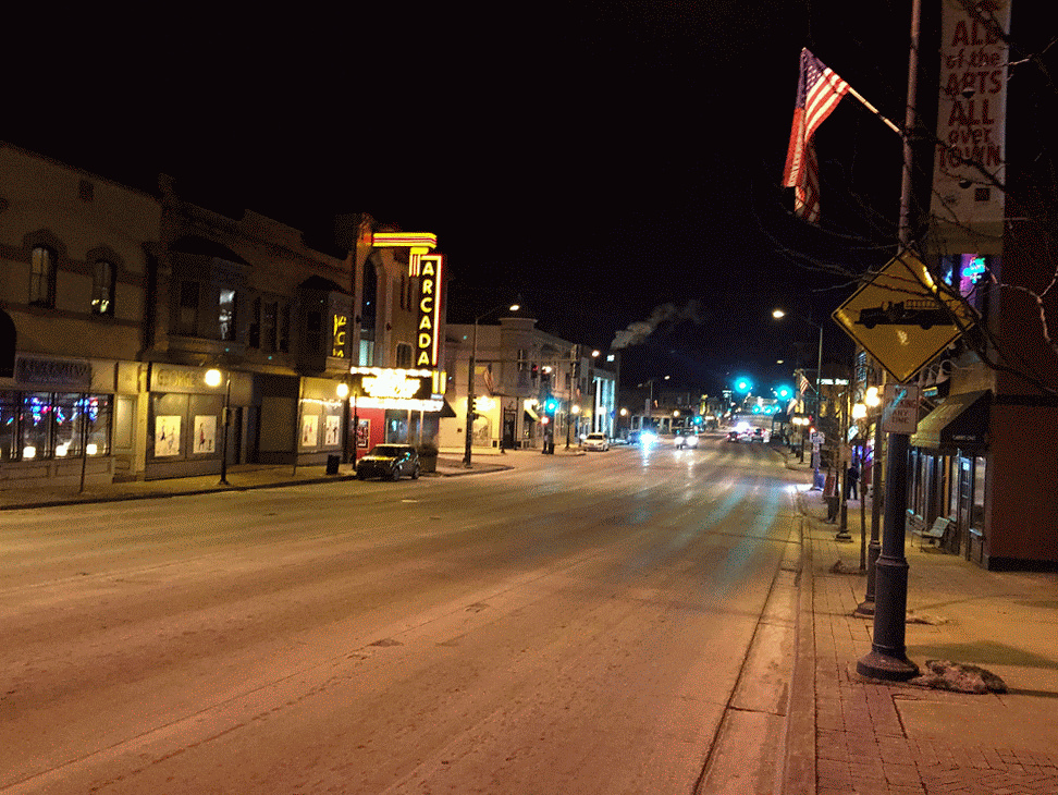 North Avenue, the same one that runs from the beach on Lake Michigan in Chicago westward, downtown St. Charles, the next county over (DuPage), after the fabulous show by The B-52s at the ornate Arcada Theater. Marek Wojciech Ługowski's Vimeo PRO page, for the entire show shot cinema verité/Dogme 95-style from seat 9, row 1.